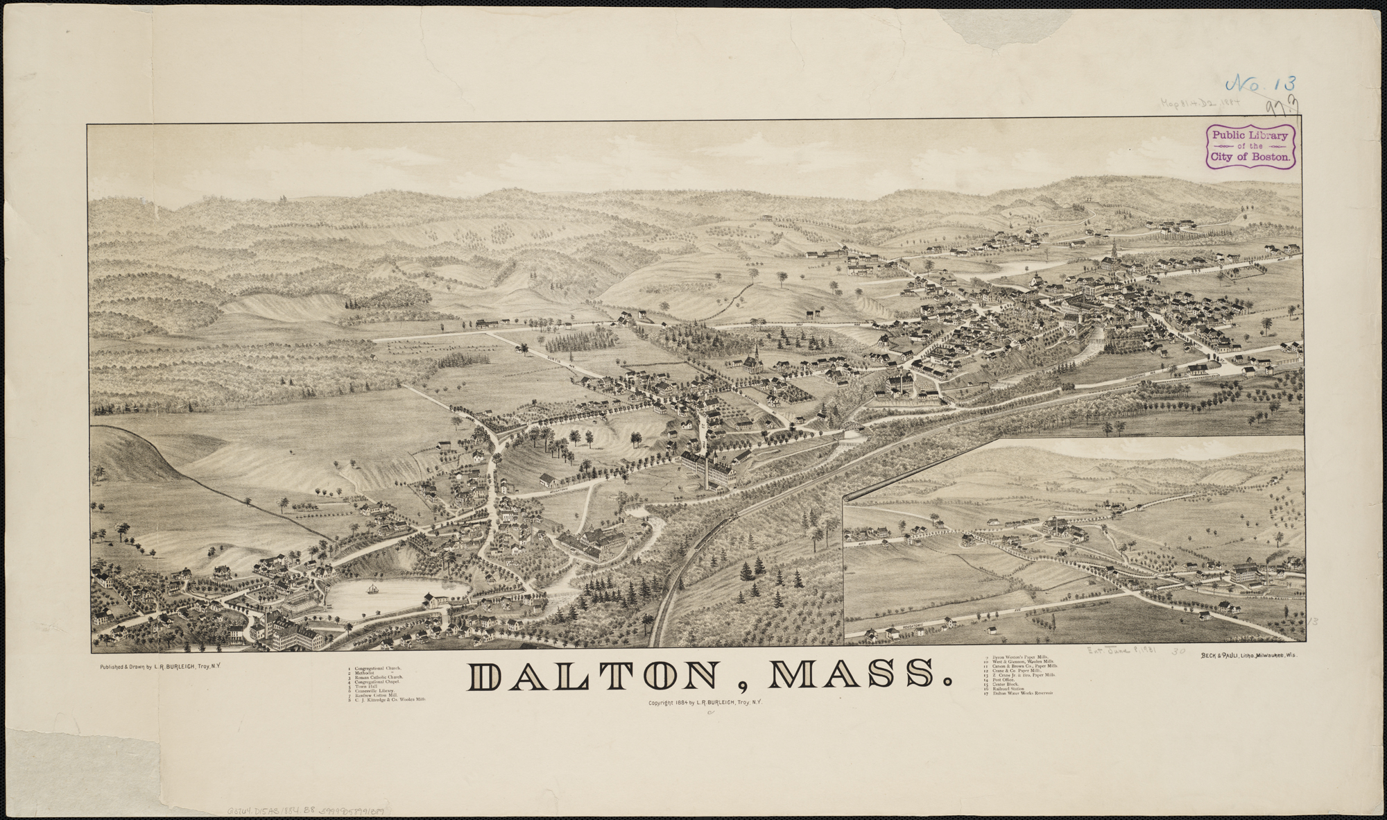 Zoom into this map at . Author: Burleigh, L. R. Publisher: L.R. Burleigh Date: c1884. Location: Dalton (Mass.) Scale: Not drawn to scale. Call Number: G3764.D15A3 1884.B8